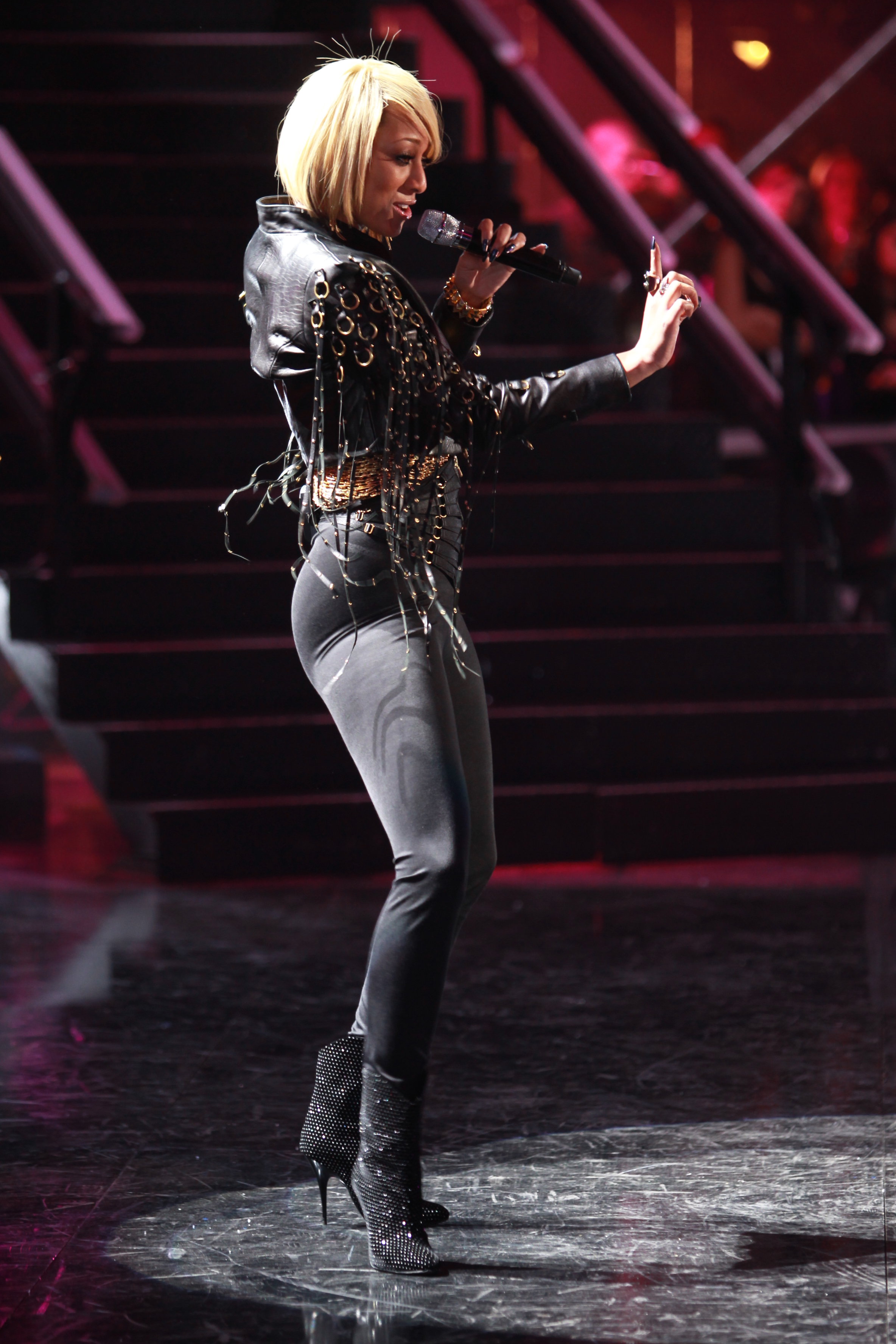 Keri Hilson, performer and singer, interacts with the crowd, during the 2010 VH1 Divas Salute The Troops concert aboard Marine Corps Air Station Miramar, Calif., Dec. 3.